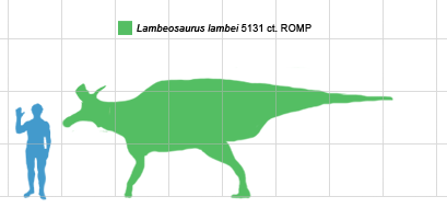 Size chart for Lambeosaurus lambei, based on an illustration by User:ArthurWeasley